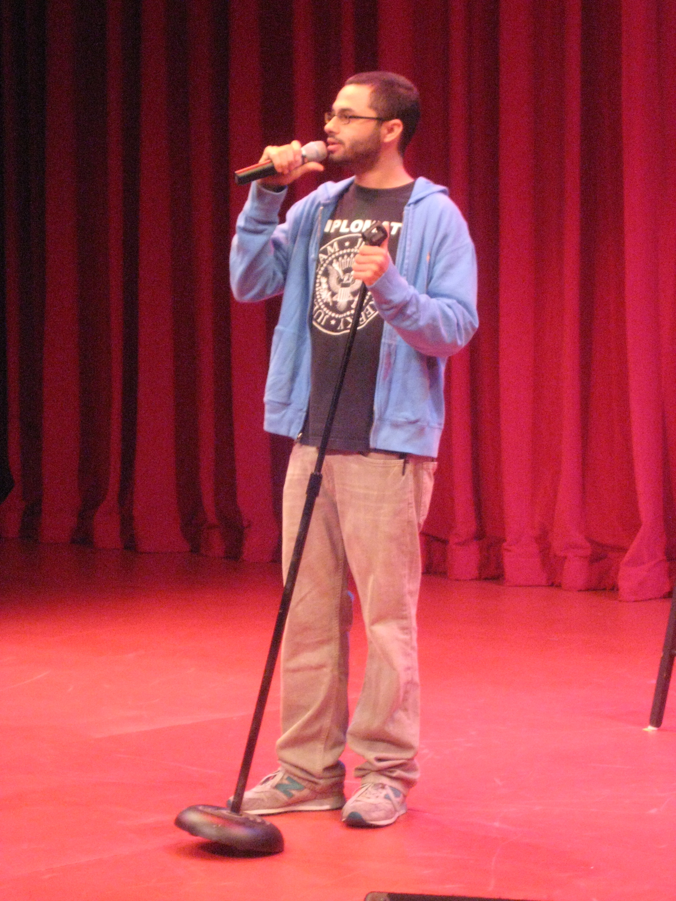 Joe Mande at bumbereshoot 2010